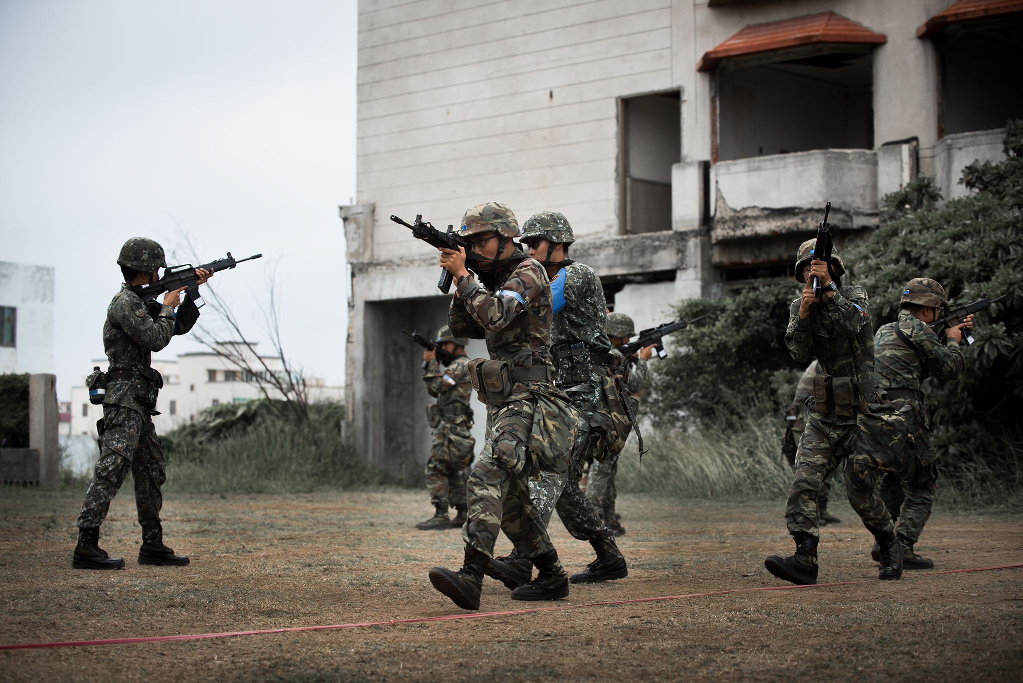 授權方式及範圍：中華民國總統府│政府網站資料開放宣告 Authorization Method & Scope: Office of the President, Republic of China (Taiwan) | Government Website Open Information Announcement